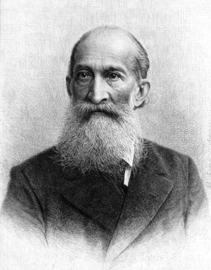 Depicted person: Salomon Jadassohn